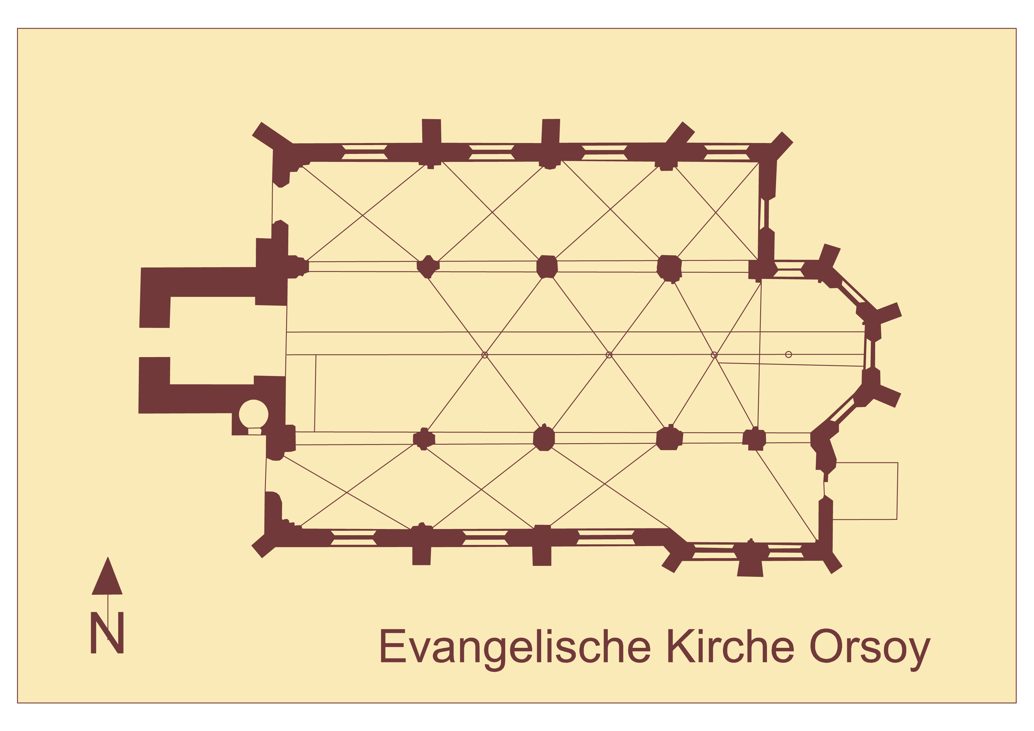 Groundplan of the protestant church Orsoy.